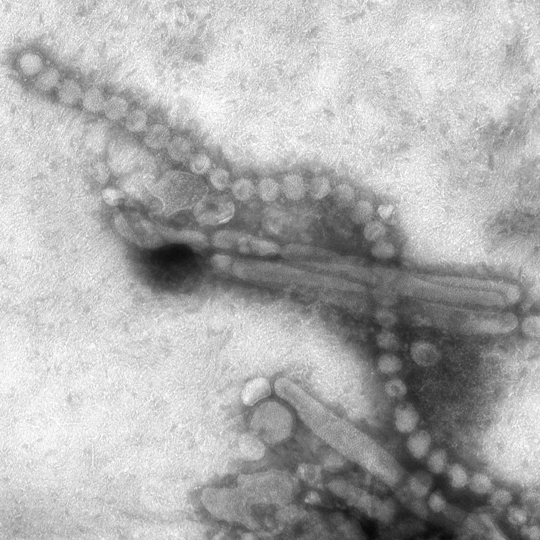 Influenza A (H7N9) as viewed through an electron microscope. Both filaments and spheres are observed in this photo.